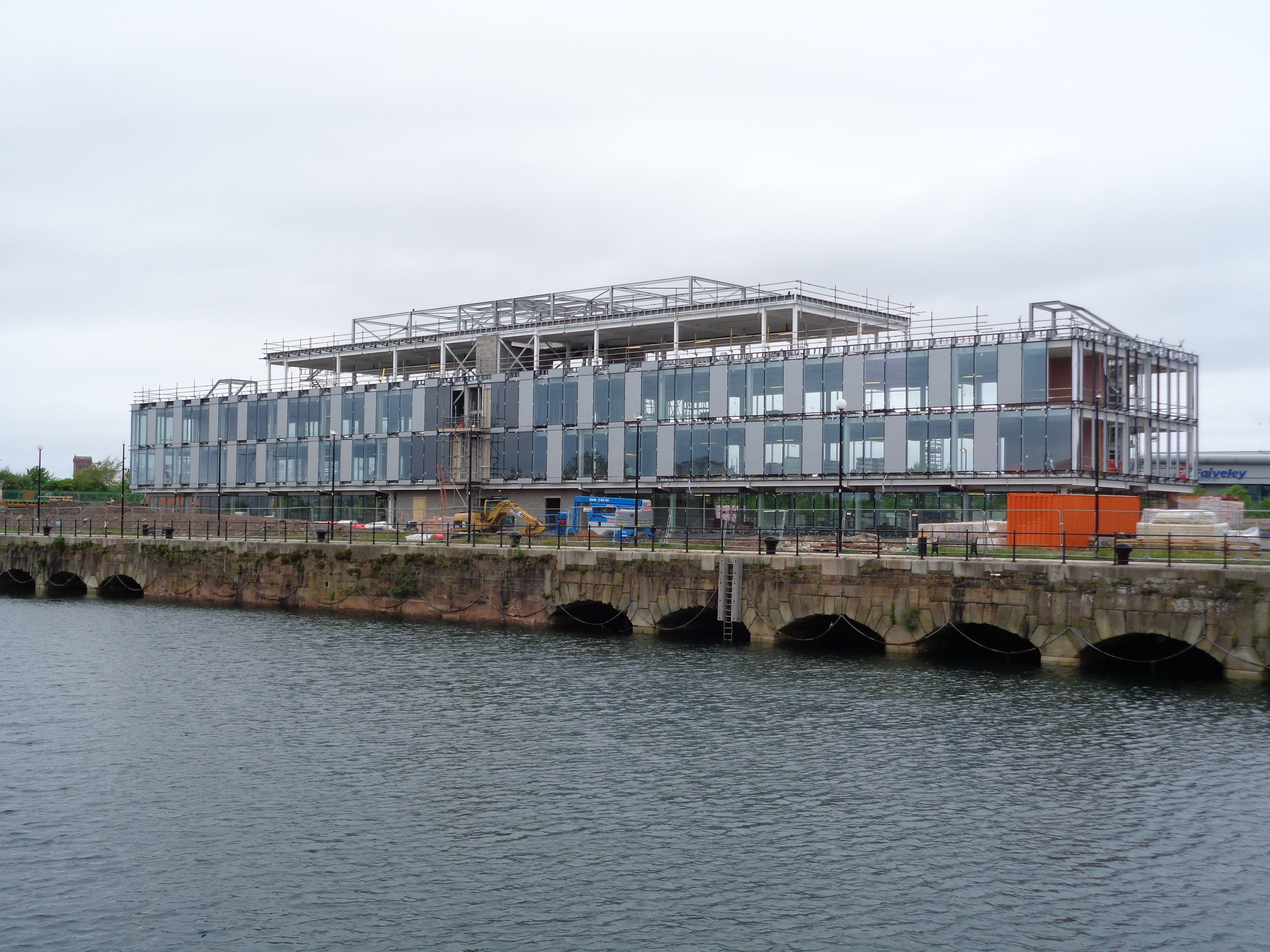 Building under construction, Egerton Dock, Birkenhead, Merseyside, England.